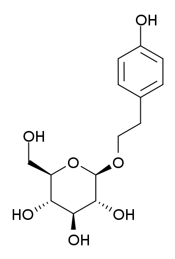 Salidroside chemical diagram